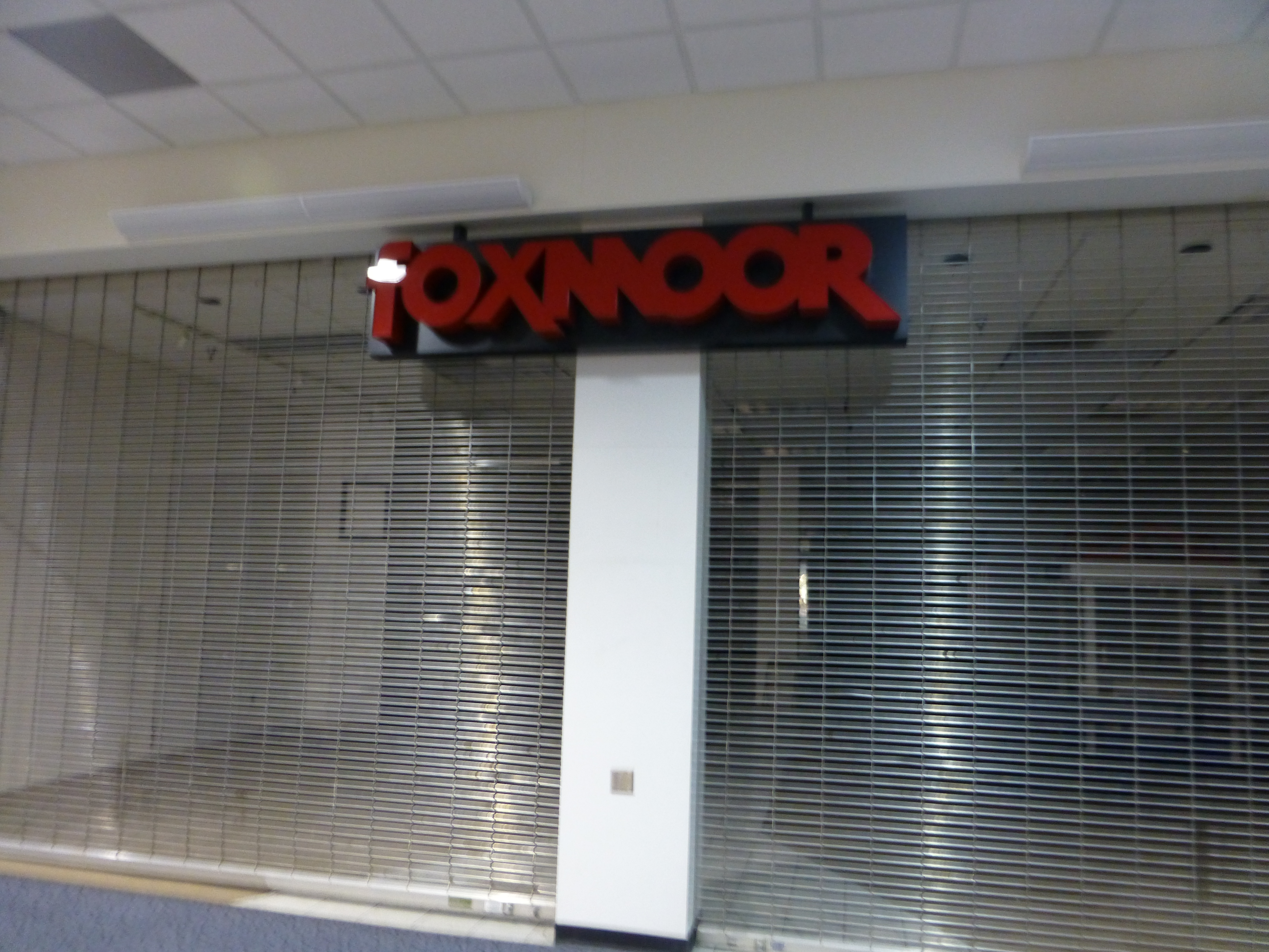 This mall is now closed and sealed-up